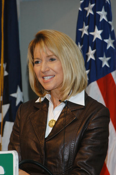 USGS Director Marcia McNutt speaks to employees in Menlo Park, California